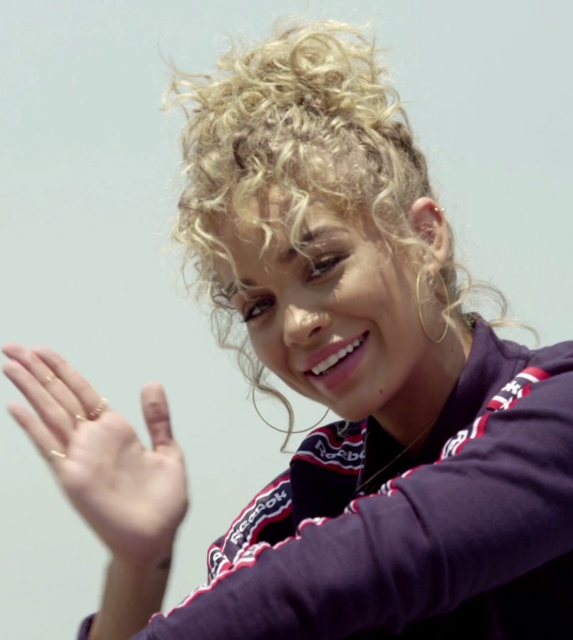 Jasmine Sanders in a campain for Reebok in 2018